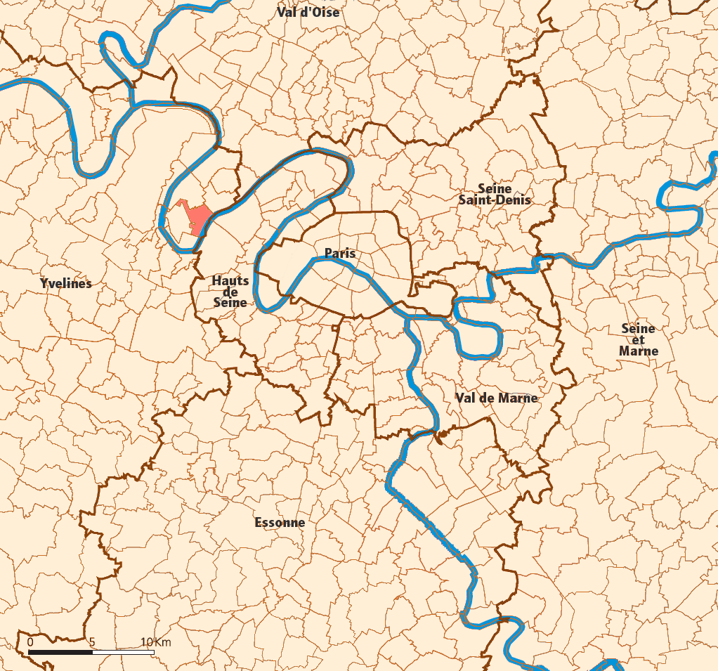 Created map myself.